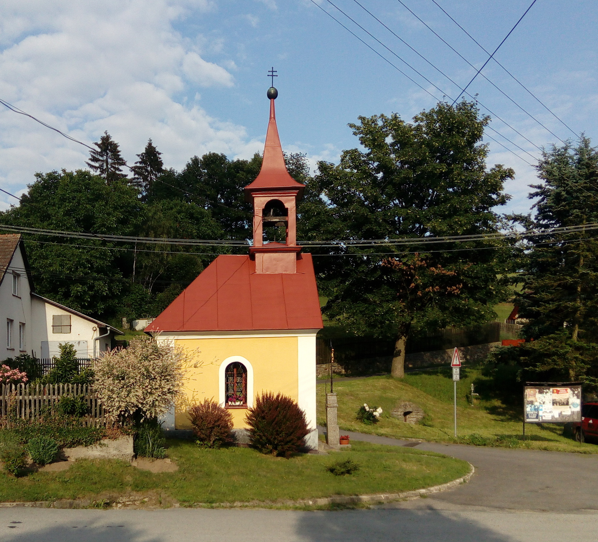 Chapel with a bell tower from 1861 in the village of Jiříkovice (Nové Město na Moravě) in Žďár nad Sázavou District, Vysočina Region, Czech Republic.